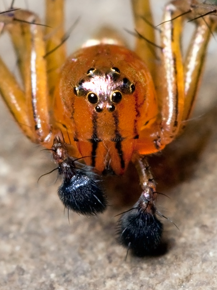 Male striped lynx spider (Oxyopes salticus). The enlarged pedipalps serve as the external reproductive organs of the male.